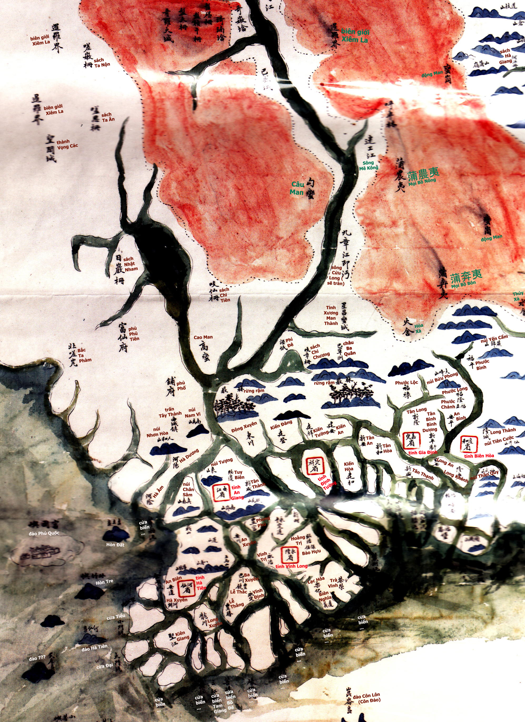 Vietnamese version of Southern Vietnam Map - circa 1899 - based on Note: 1. Bản đồ này không vẽ sông Tiền mặc dù sông Tiền lớn hơn sông Hậu 2. Các địa danh quanh tỉnh An Giang có thể vẽ sai địa điểm theo phân tích dưới đây: Tỉnh An Giang có 2 phủ Tân Thành và Tuy Biên. Phủ Tân Thành có huyện Đông Xuyên ở giữa sông Tiền và sông Hậu ( nay là các huyện Chợ Mới, Phú Tân, TX Tân Châu, An Phú và TP Long Xuyên). Phủ Tuy Biên có các huyện Tây Xuyên ( Tp Châu Đốc, các huyện Châu Phú, Châu Thành, Thoại Sơn) , huyện Hà Dương bao gồm các huyện Tịnh Biên và Tri Tôn hiện nay. Trấn Tây Thành là tỉnh thứ bảy ở vùng Nam bộ nằm ở hướng Bắc huyện Đông Xuyên chứ không phải vị trí đó. Nó gồm 2 tỉnh Kan Dan , Tà Keo và thủ đô Phnom Penh của Campuchia hiện nay. Trương Minh Giảng và Lê Đại Cương là Tổng Đốc và phó Tổng Đốc của thành Trấn Tây này. Các tỉnh Kampot, Kompongsom của Campuchia và Phú Quốc của Việt Nam thuộc về Trấn Hà Tiên dưới triều vua Minh Mạng. Đến năm 1841 vua Thiệu Trị mới trả Trấn Tây thành và hai tỉnh này cho Cao Miên, chỉ giữ lại Phú Quốc cho đến ngày nay.